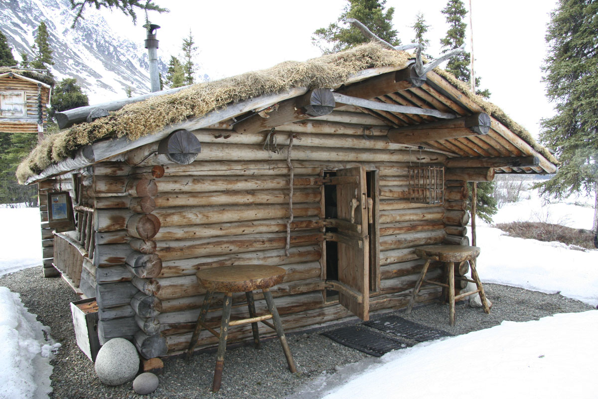 Proenneke Cabin in Lake Clark National Park, Alaska, USA